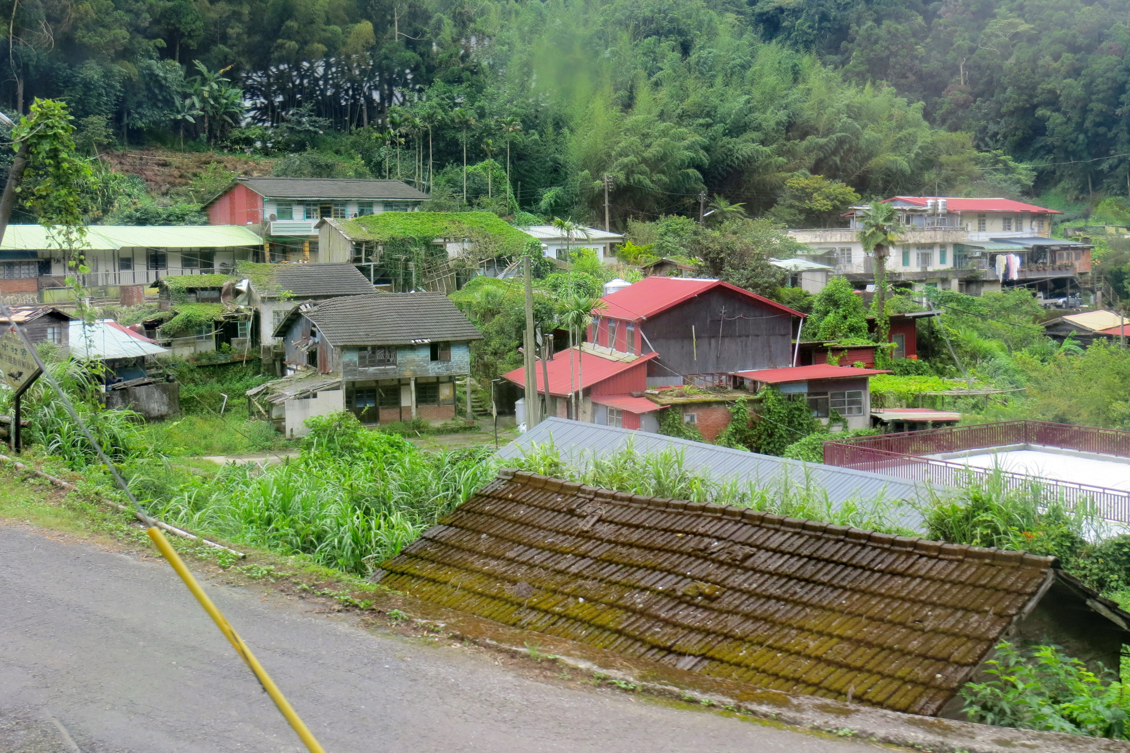 Shuisheliao Station, Chiayi County, Taiwan.